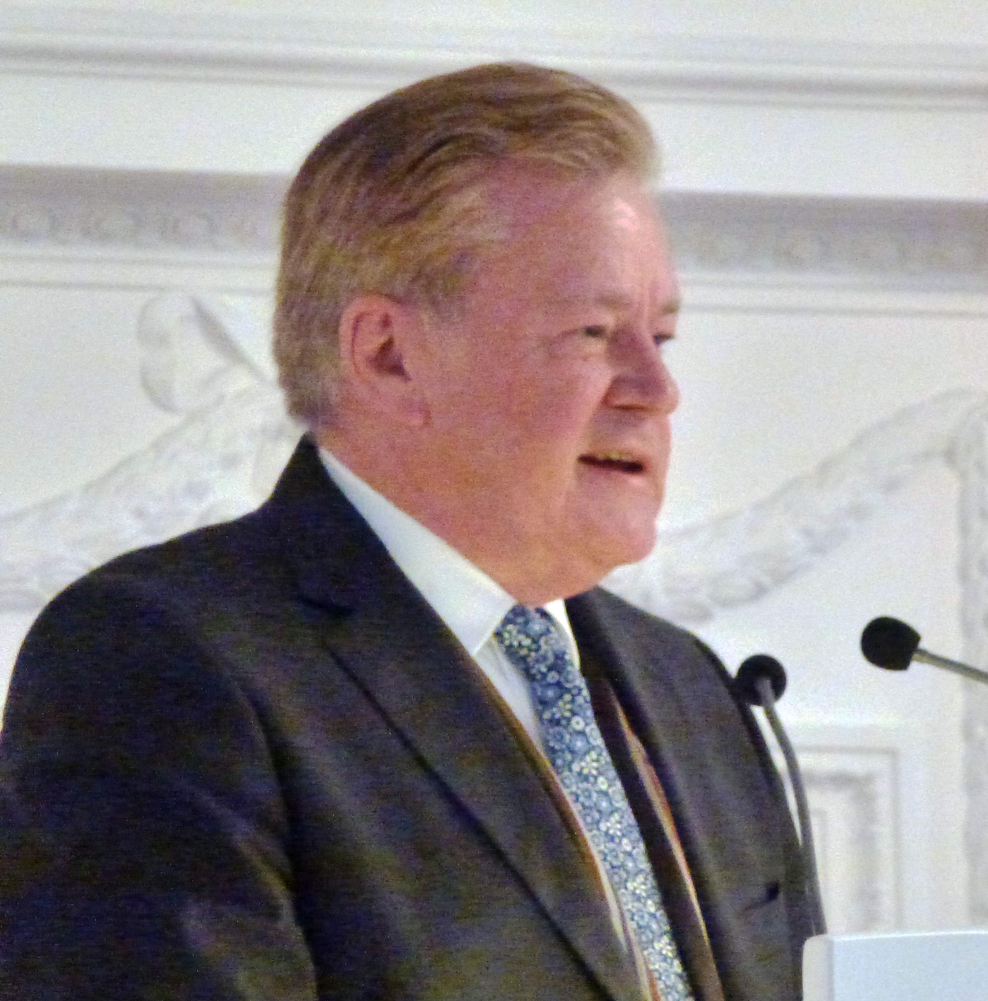 Hans-Jürgen Beerfeltz, State Secretary of German Ministery of economic collaboration